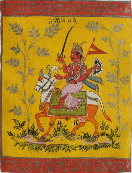 From an astrological set of the nine planets personified: Mangala (Mars). Central India, circa first half 19th century. Opaque watercolour with silver and gold on wasli. 19.1 x 14.6cm The inscription reads 'Bhauma', a less common name for Mangala, whose vahana (vehicle) is usually a ram but here a bull. Thanks to Tarun Pant for kindly translating the inscription and providing information.